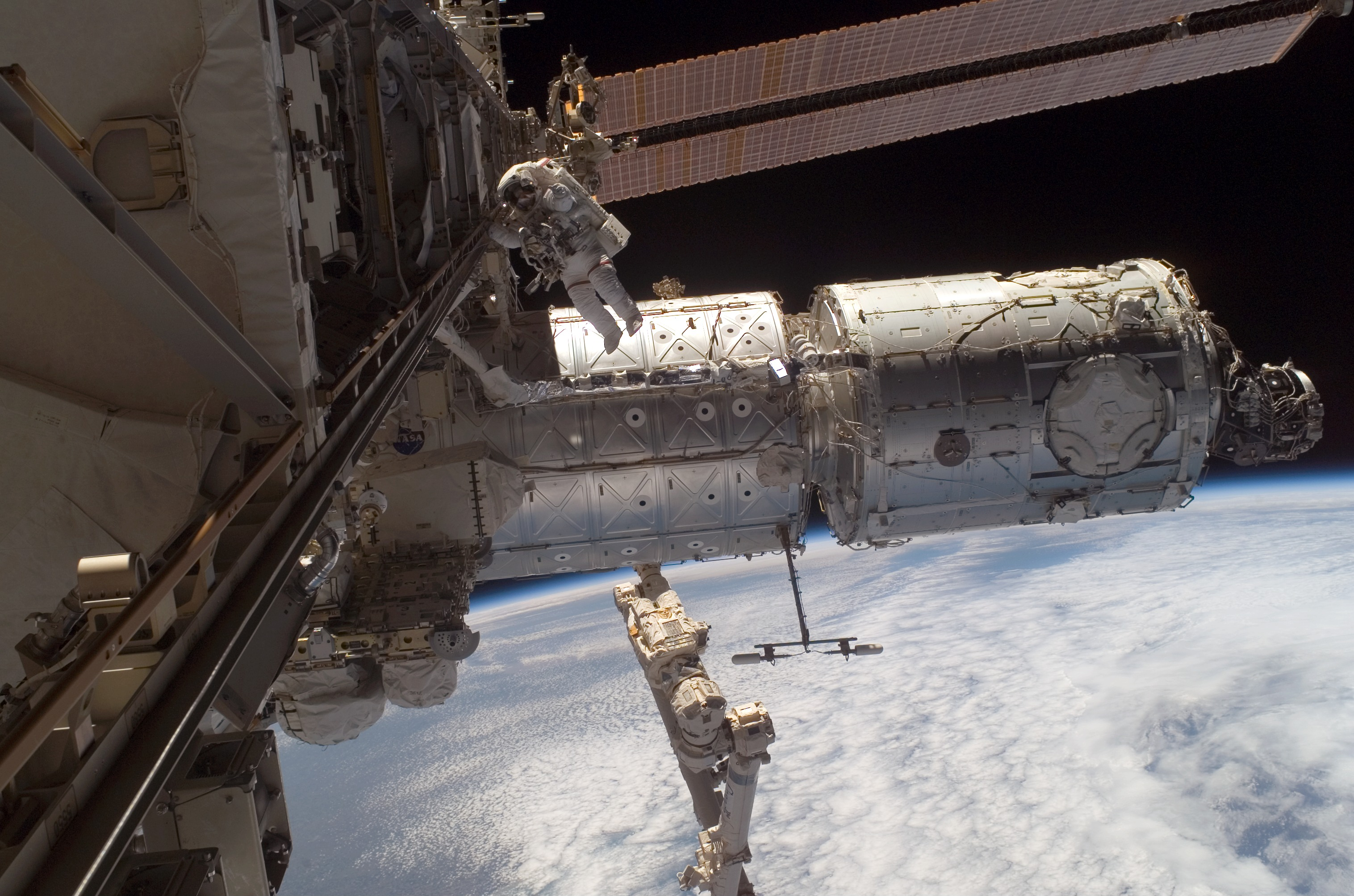 Astronaut Peggy Whitson, Expedition 16 commander, participates in a session of extravehicular activity (EVA) as construction continues on the International Space Station. During the 7-hour, 4-minute spacewalk Whitson and astronaut Daniel Tani (out of frame), flight engineer, continued the external outfitting of the Harmony node in its new position in front of the Destiny laboratory. The blackness of space and Earth's horizon provide the backdrop for the scene.